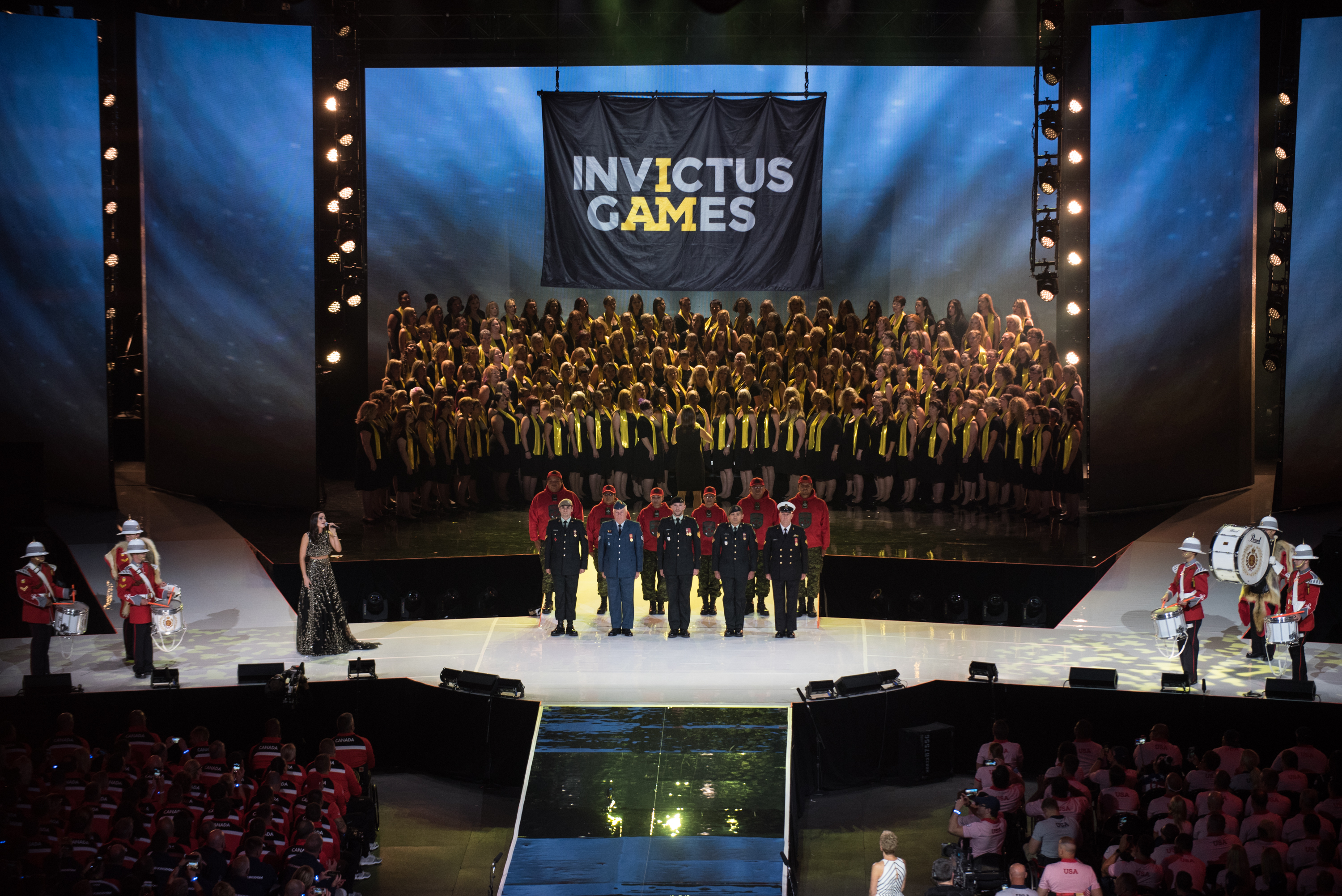 English singer Laura Wright performs during the Invictus Flag Raising portion of the Opening Ceremony of the 2017 Invictus Games at the Air Canada Centre in Toronto, Canada., Sept. 23, 2017. The Invictus Games, founded in 2014 by the United Kingdom’s Prince Harry, is designed to use the power of sport to inspire recovery, support rehabilitation and generate a wider understanding of and respect for those who serve their country and their loved ones.(DoD Photo by U.S. Army Sgt. James K. McCann)